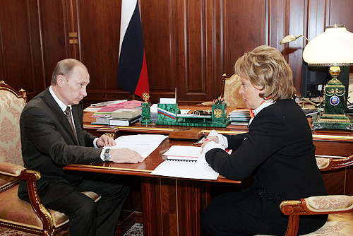 THE KREMLIN, MOSCOW. With Governor of St Petersburg Valentina Matviyenko.